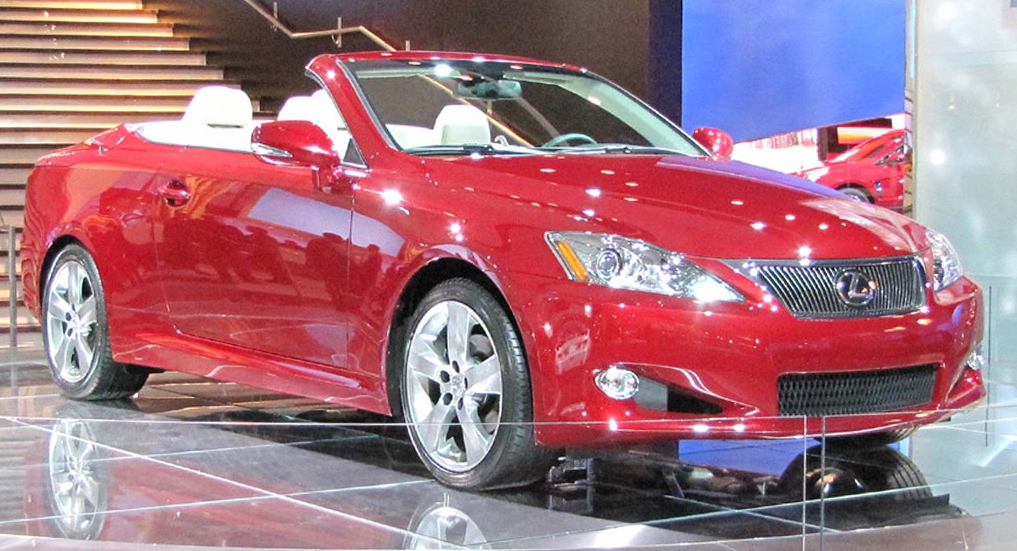 North American International Auto Show in Detroit, MI. North American International Auto Show in Detroit, MI. Press Preview Jan 11, 2009 North American International Auto Show in Detroit, MI. Press Preview Jan 11, 2009